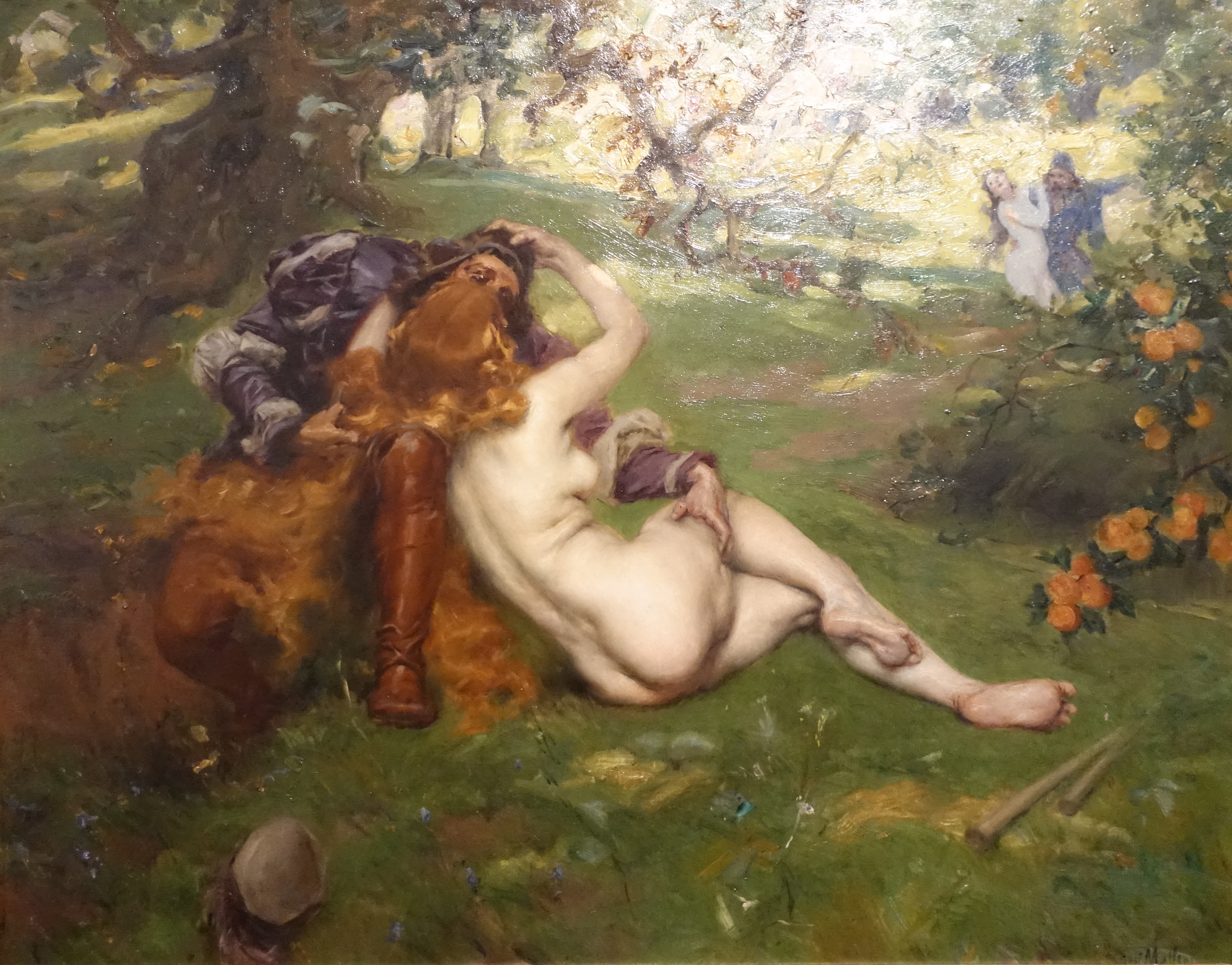 Painting of Island of Love (Os Lusíadas) José Malhoa, in Museu Nacional de Soares dos Reis,, Porto, Portugal.